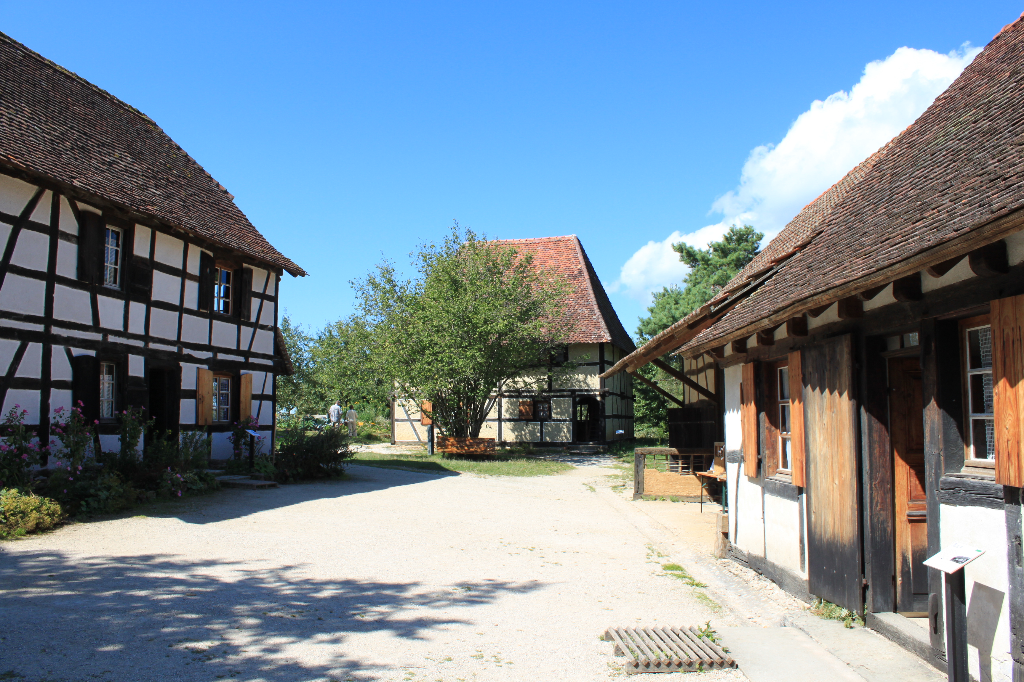 Maisons Comtoises de Nancray, France